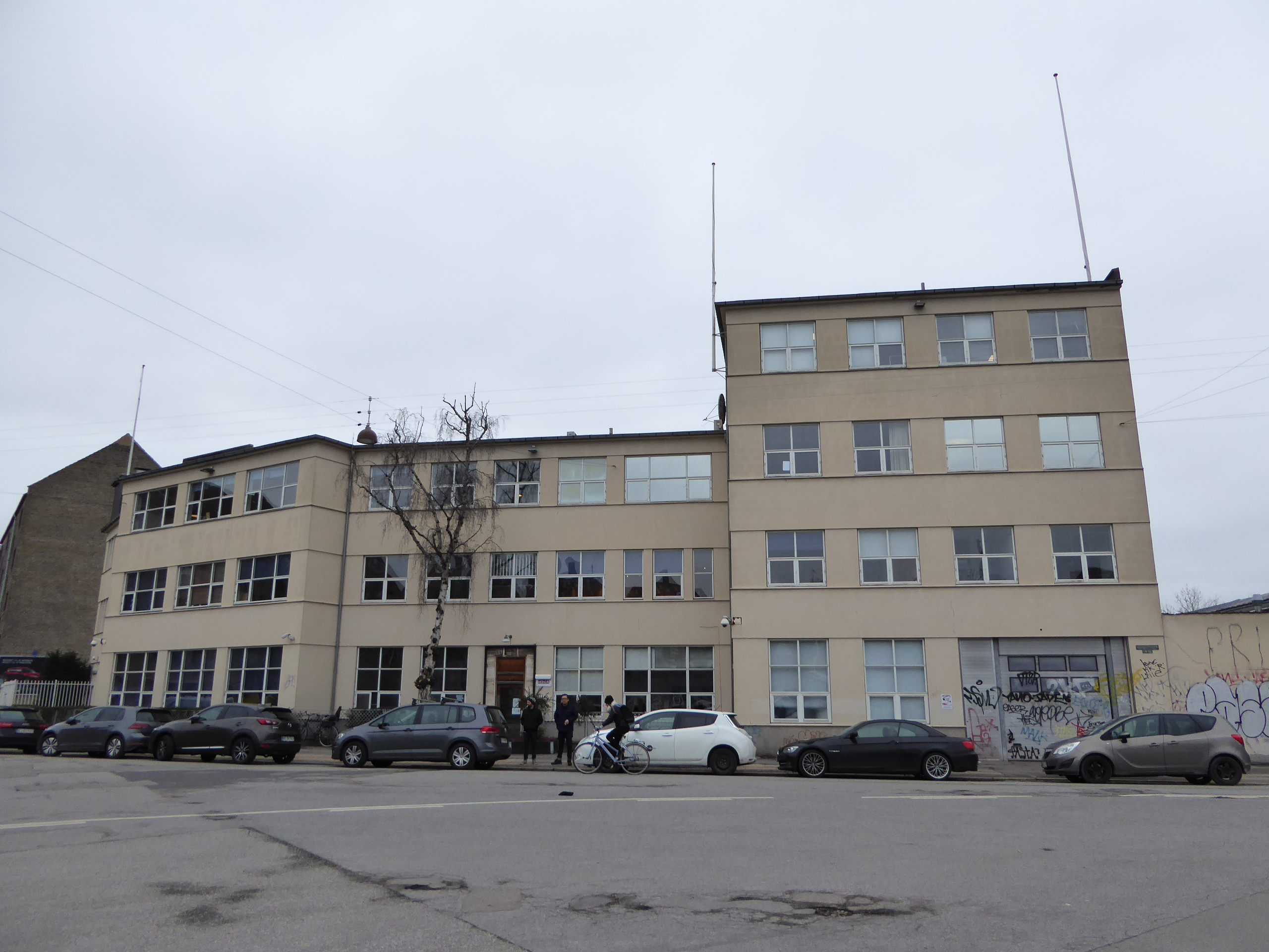 The Danish television station DK4 at Rådmandsgade in Nørrebro in Copenhagen.